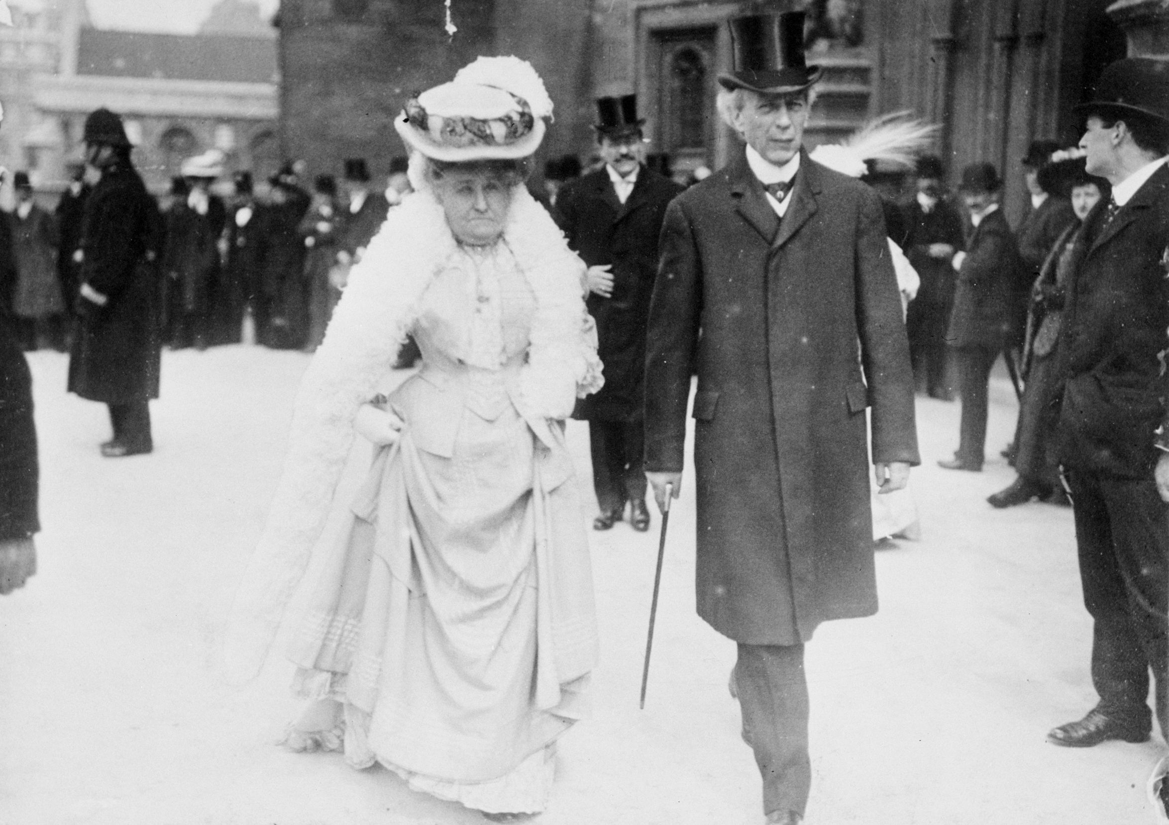 The Prime Minister of Canada, Sir Wilfrid Laurier, and his spouse, Lady Laurier, going to the Parliamentary luncheon at the Colonial Conference in London, England. The Honourable L.P. Brodeur is in the background.